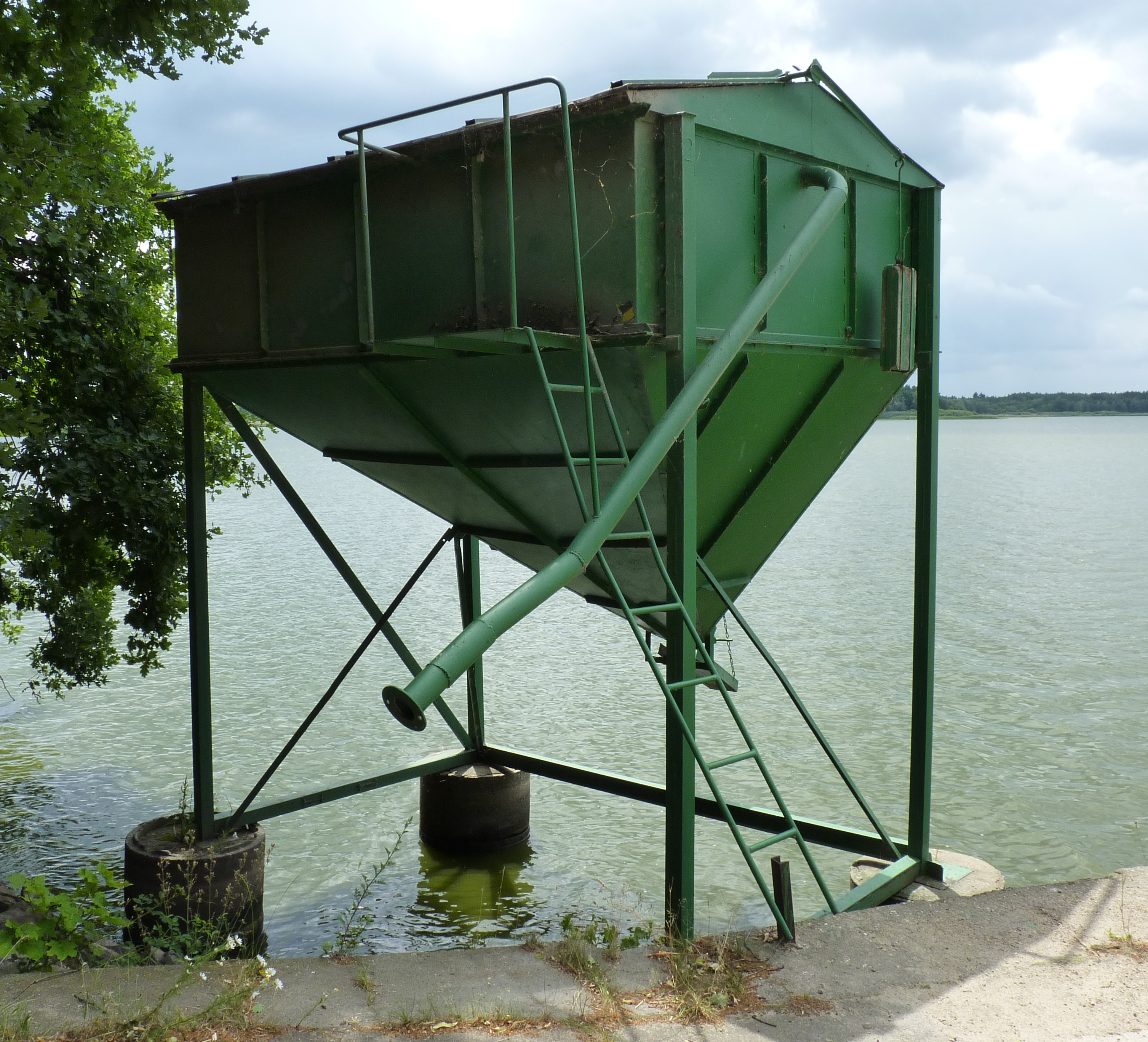 National natural reserve Velký a Malý Tisý. Jindřichův Hradec District, South Bohemian Region, Czech Republic